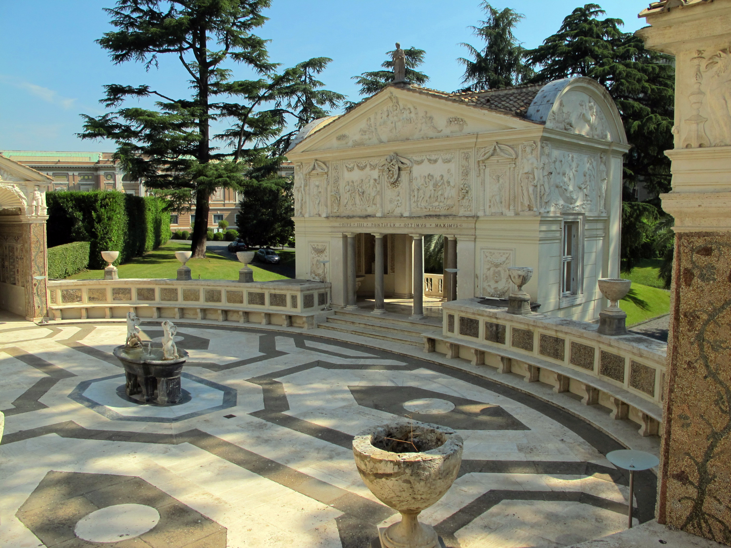 Pontifical Academy of Sciences, headquartered in the Casino di Pio IV in Vatican City.